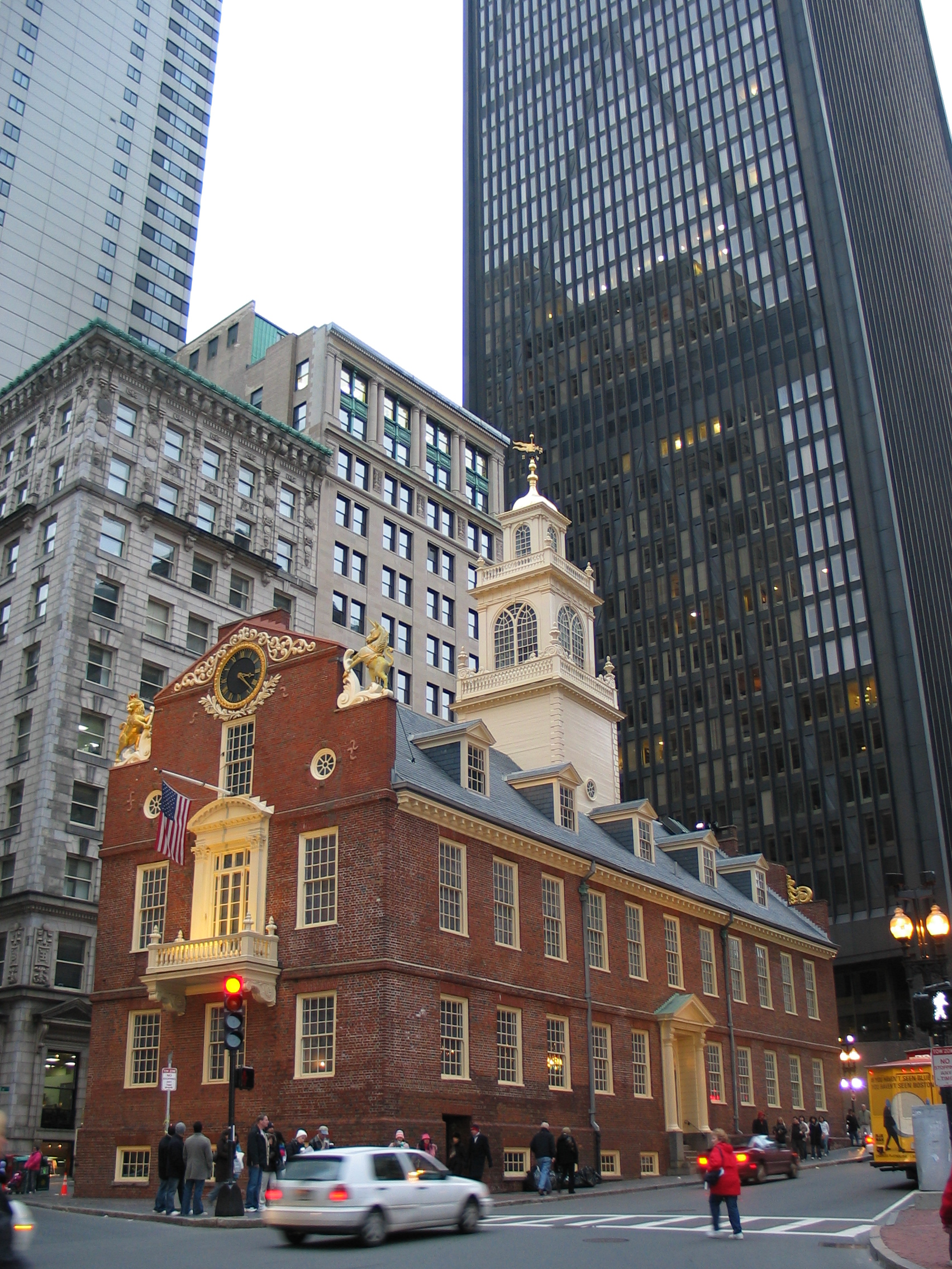 Old State House, Boston, MA, USA